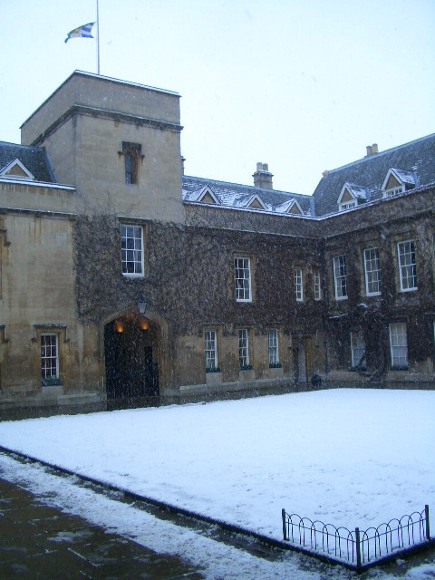 Front quad of Lincoln College, Oxford in the snow, February 2005.